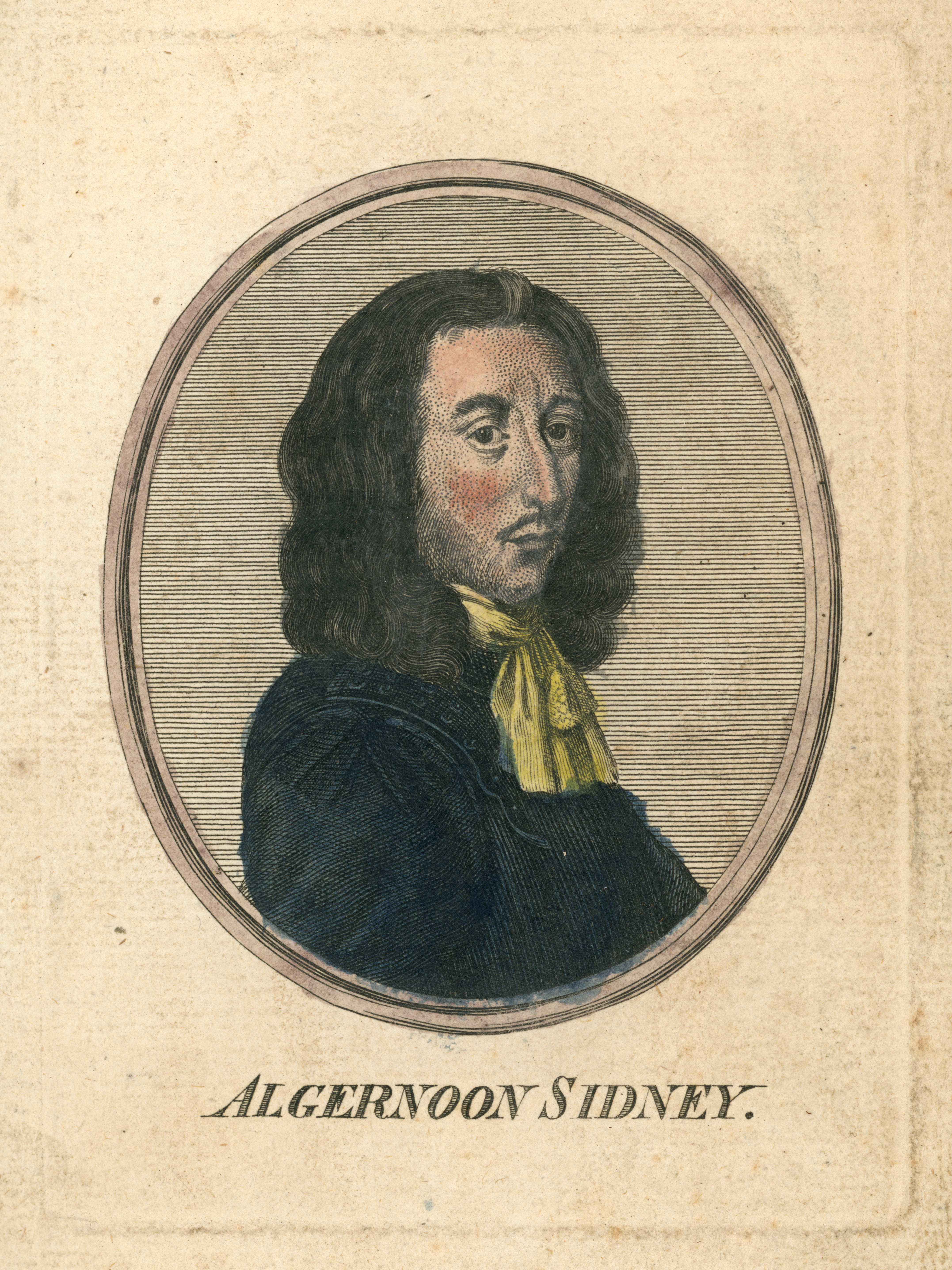 Hand coloured engraving of Algernon Sidney, 18th century, from an 18th century book by an unknown engraver and colourist.